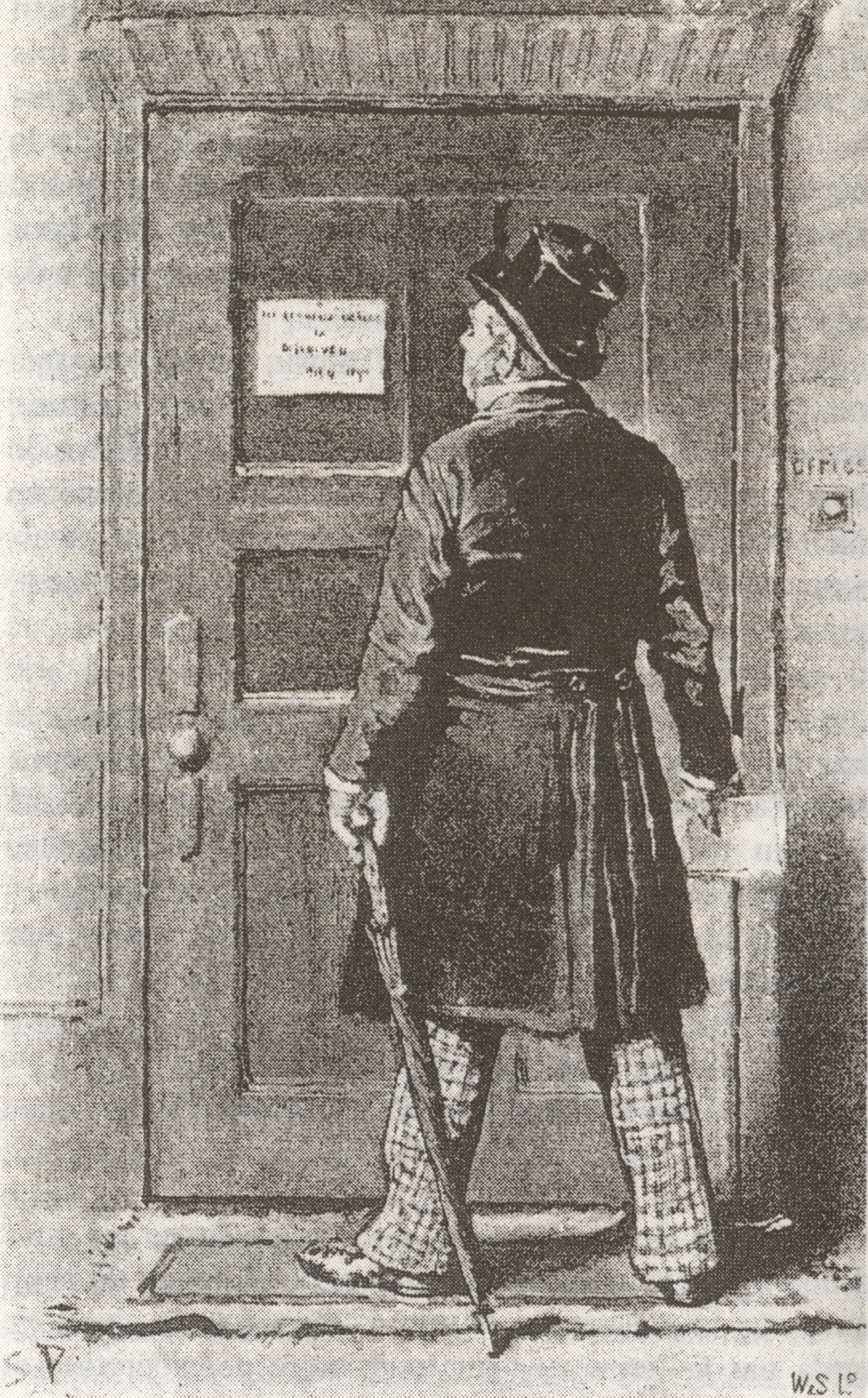 Illustration of the Sherlock Holmes short story The Red-Headed League, which appeared in The Strand Magazine in August, 1891. Original caption was "THE DOOR WAS SHUT AND LOCKED."